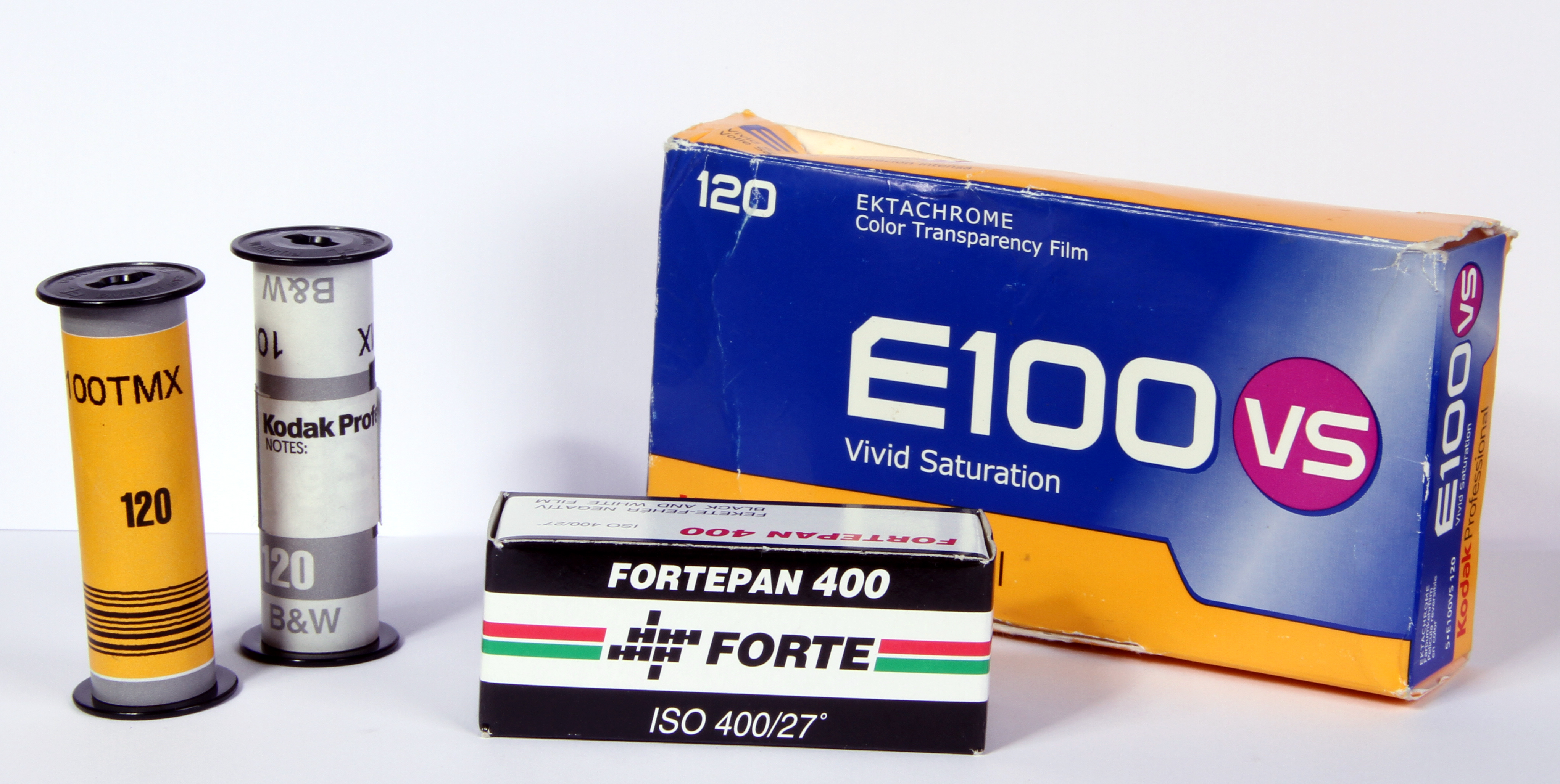 120 Film @ Slide